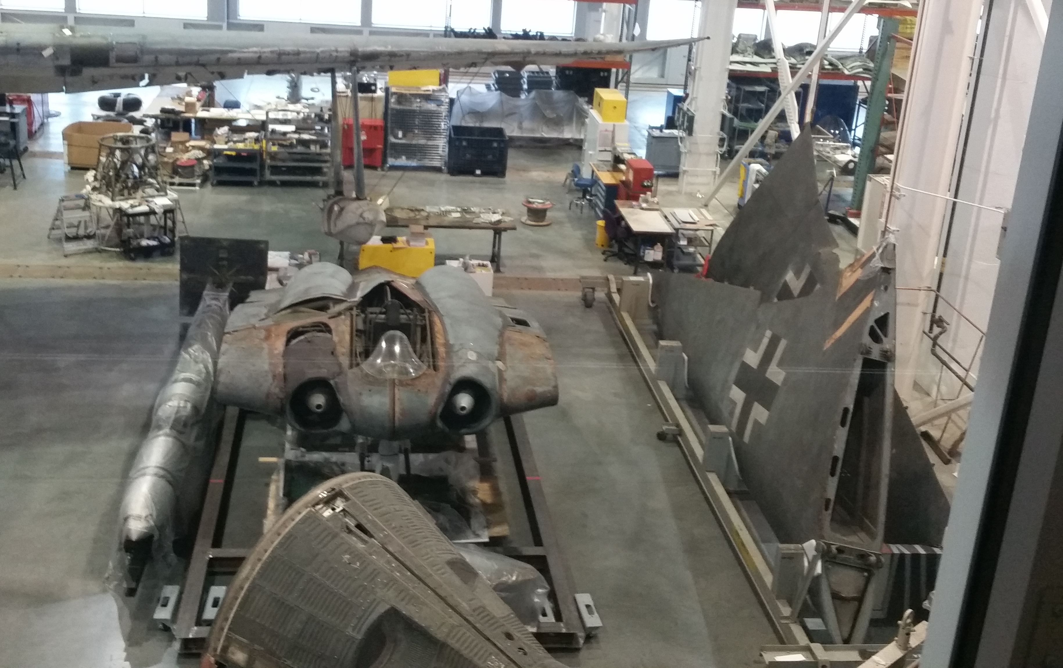 Horten Ho 229 WWII Prototype at the Mary Bake Engen Restoration Hanger in Dulles, VA 8-20-2015